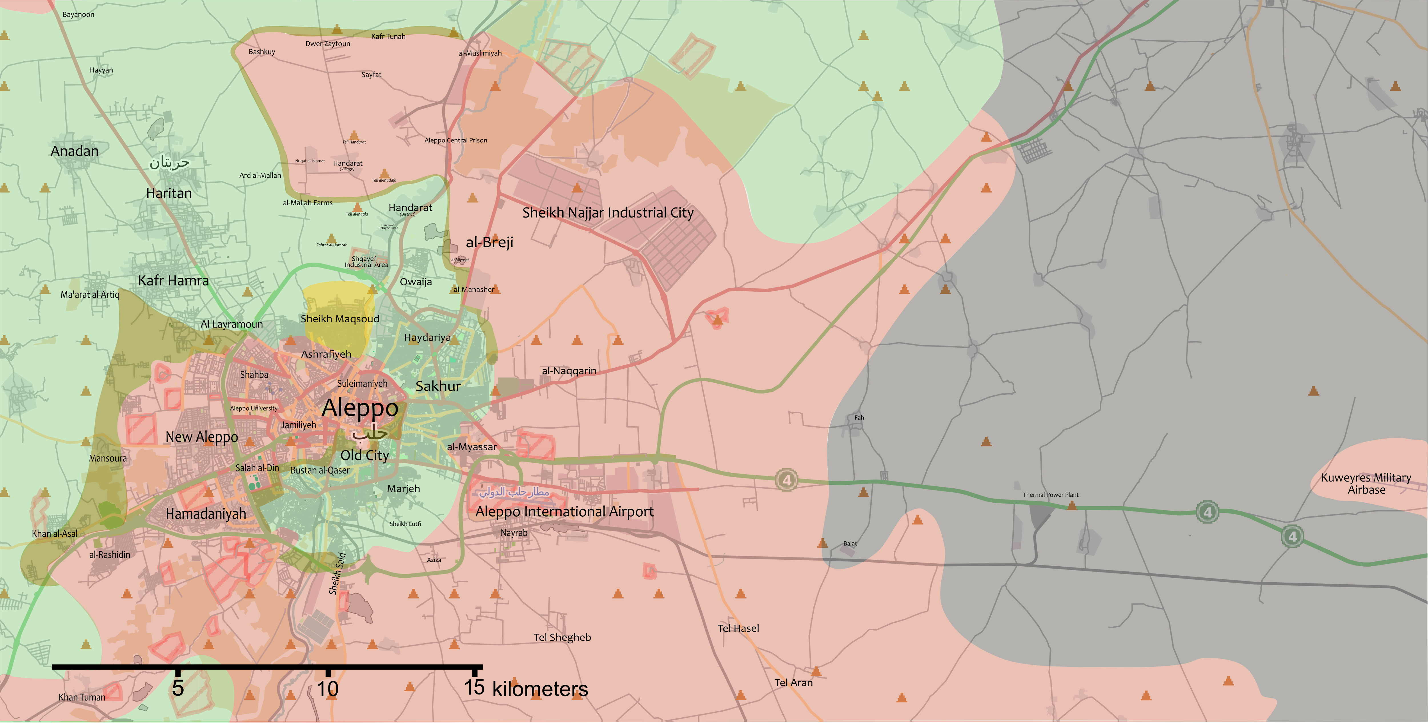 Rif Aleppo2 update